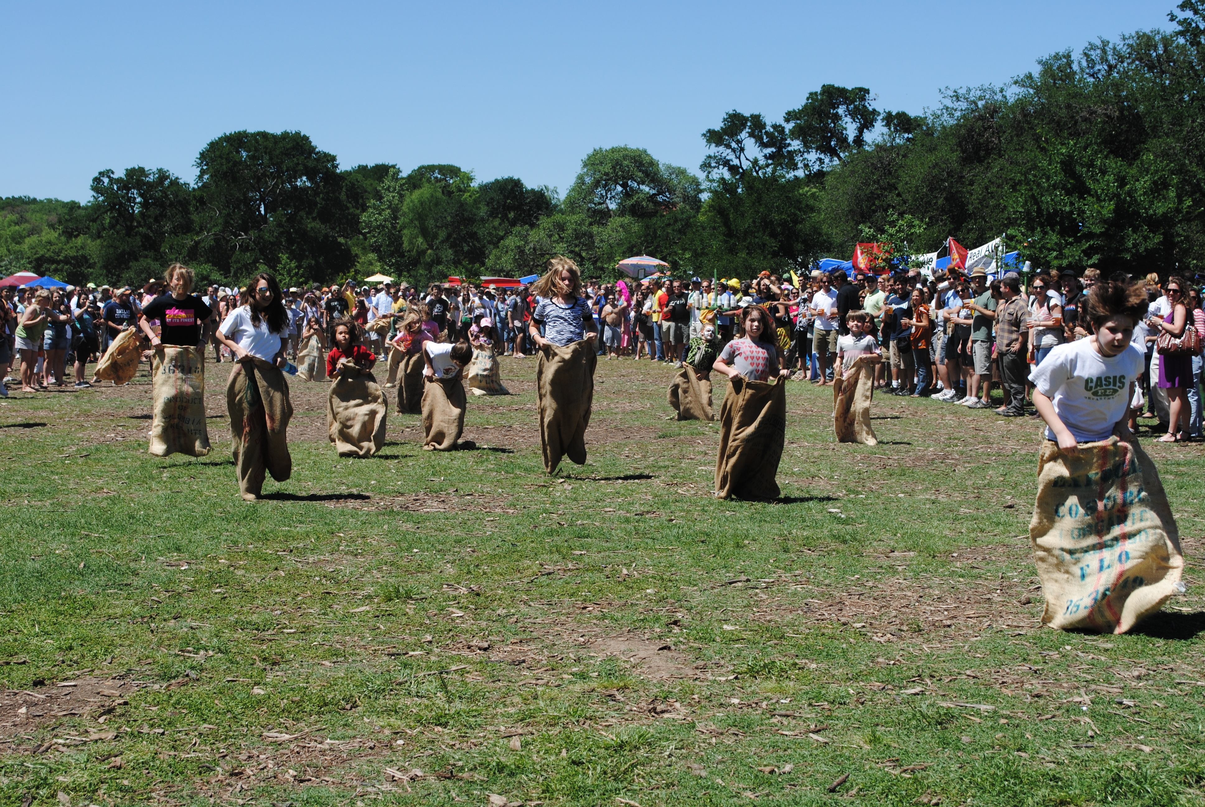 Eeyore's Birthday Party 2010. Sack Race.